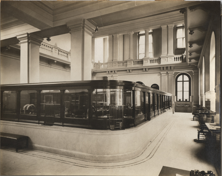 Interior photograph of the First National Bank at 315 Chestnut Street, Philadelphia, PA, taken on the ground floor of the building facing south toward Chestnut Street. Designed by architect John McArthur, Jr. in 1865, the building was built by contractor John Rice and completed in 1867. The building became home to the Chemical Heritage Foundation, which was renamed the Science History Institute as of February 1, 2018. This photo is one of a series of five images that were discovered during renovations when the bank was converted to the museum.